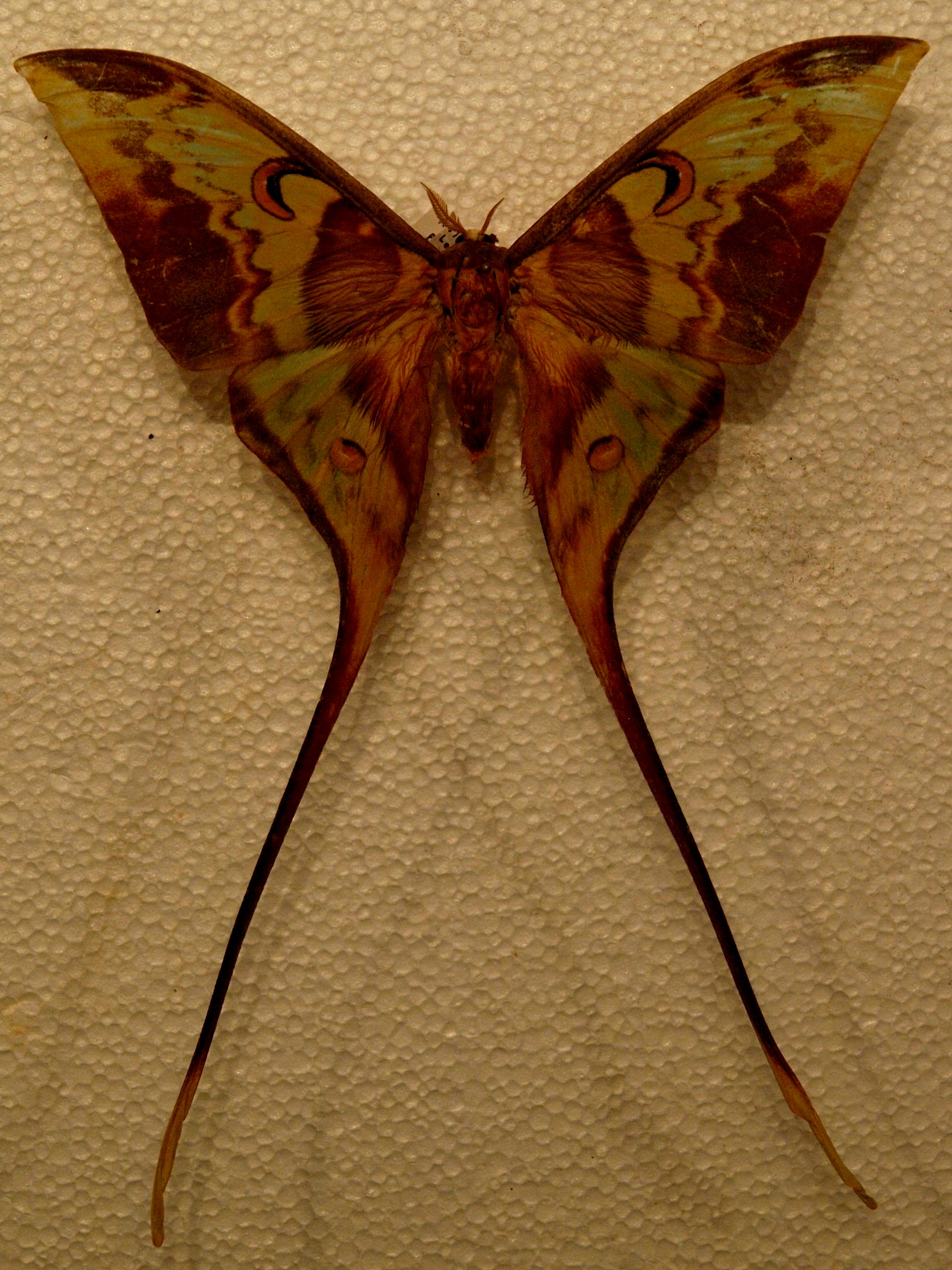 Male Actias philippinensis (Saturniidae) from Leyte. Ex own collection